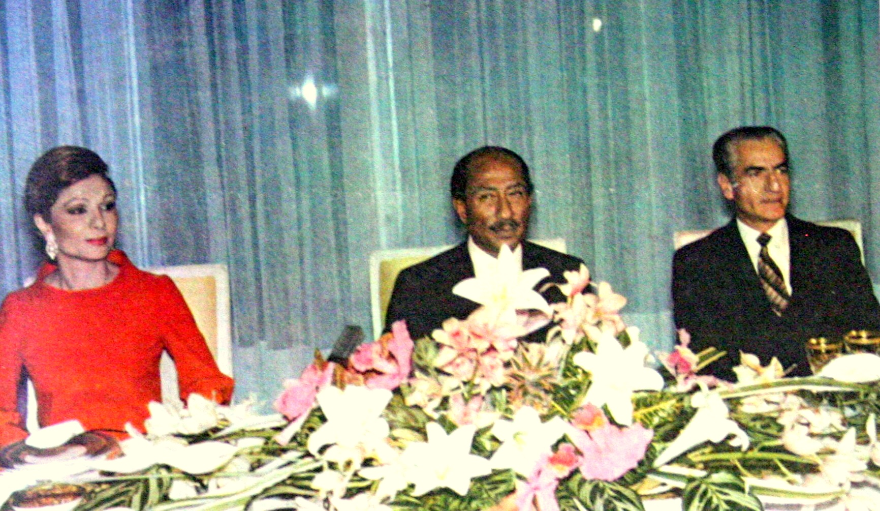 Left to Right: Queen Farah Diba of Persia, President Anwar Sadat of Egypt, Mohammad Reza Pahlavi, Shah of Persia (Iran). Tehran, 1975. Source: Kayhan International Weekly, No. 365, 26 April 1975. [Copyright Note: This photo for the first time was published in April 1975 in Kayhan International. According to Iran's Law, such works' copyright will be expired after 30 years (April 2005).]